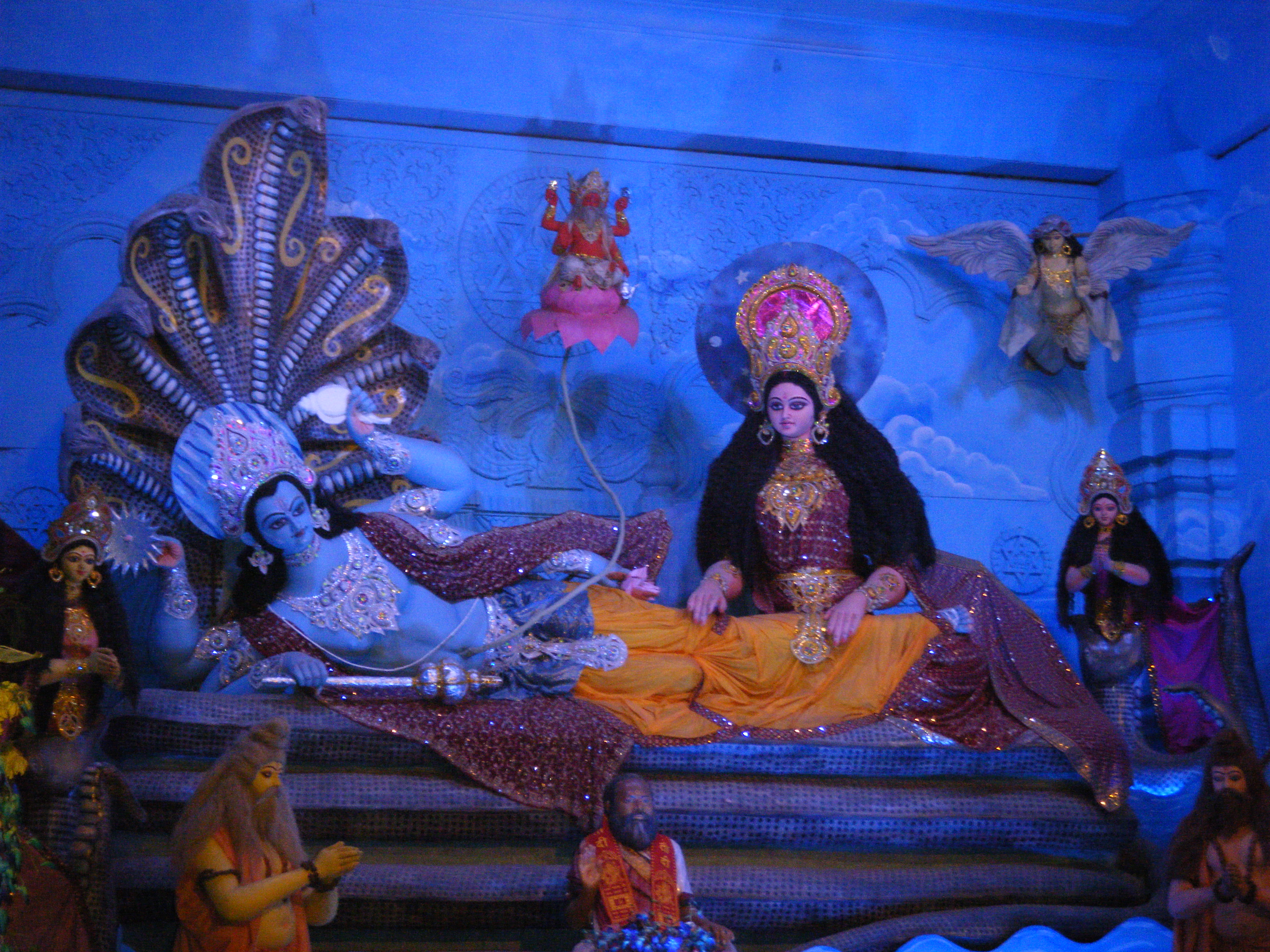 This is an idol of Lord Vishnu inside the Chattarpur Temple, New Delhi